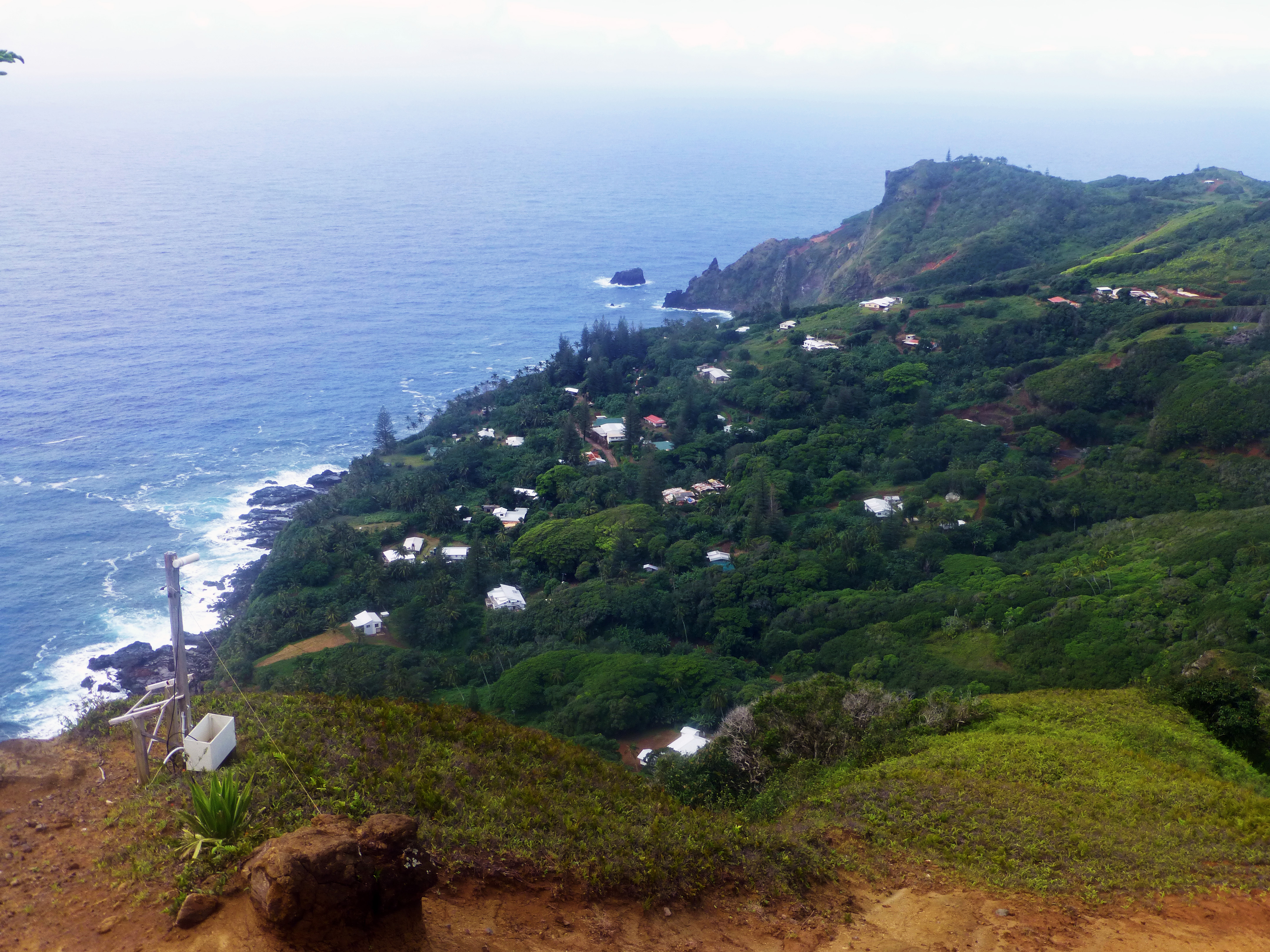 Adamstown, Pitcairn Island, as seen from Gannet's Ridge, 2012